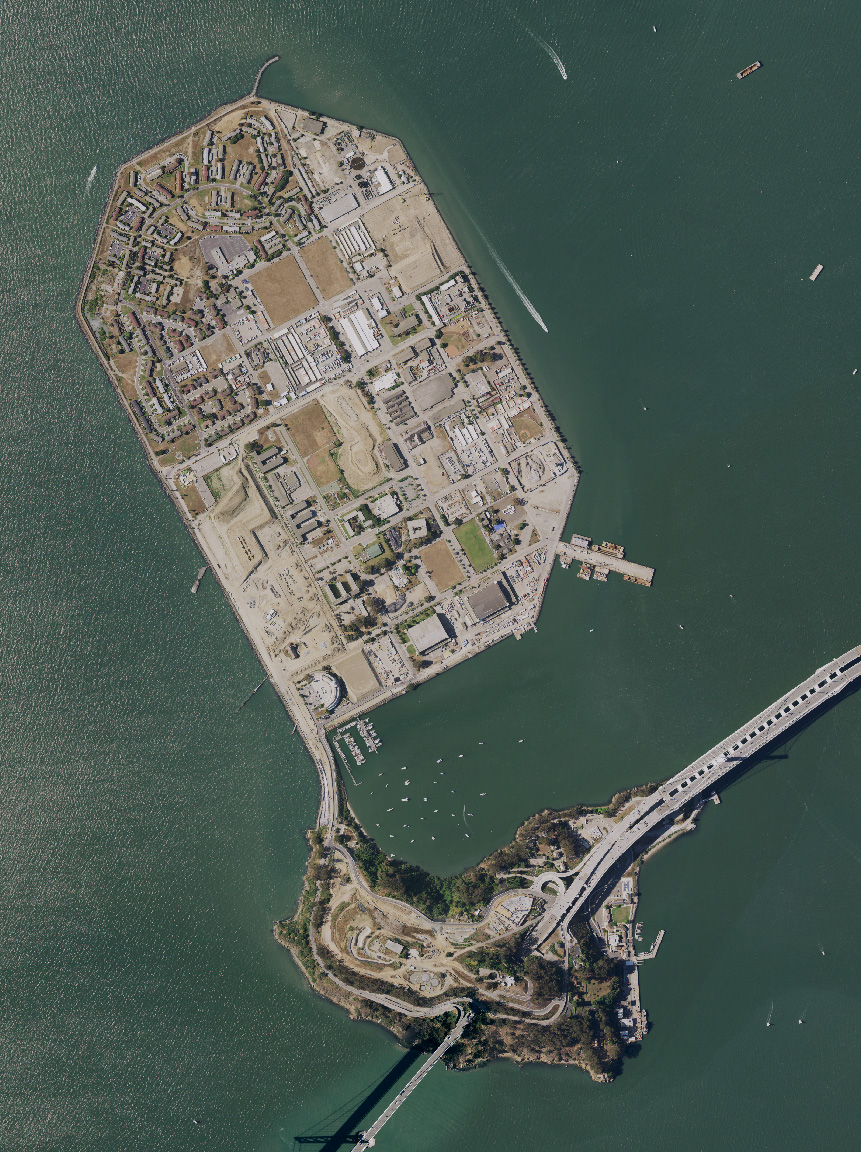 Treasure Island and Yerba Buena island, and the San Francisco Bay Bridge, in San Francisco Bay, California. USGS aerial photograph montage.